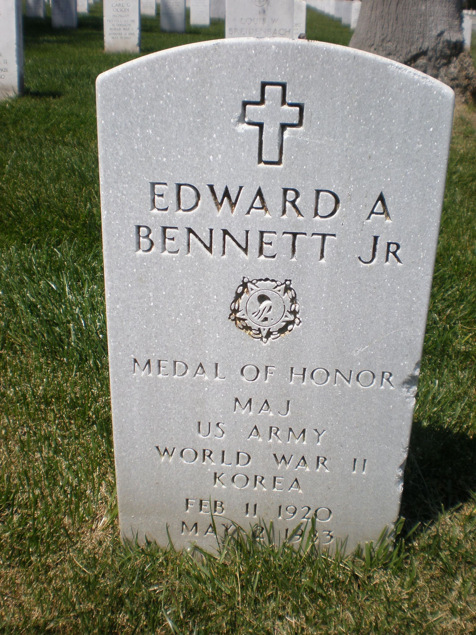 The headstone of Maj. Edward A. Bennett, Medal of Honor recipient, in Section 2B of Golden Gate National Cemetery in San Bruno, California.